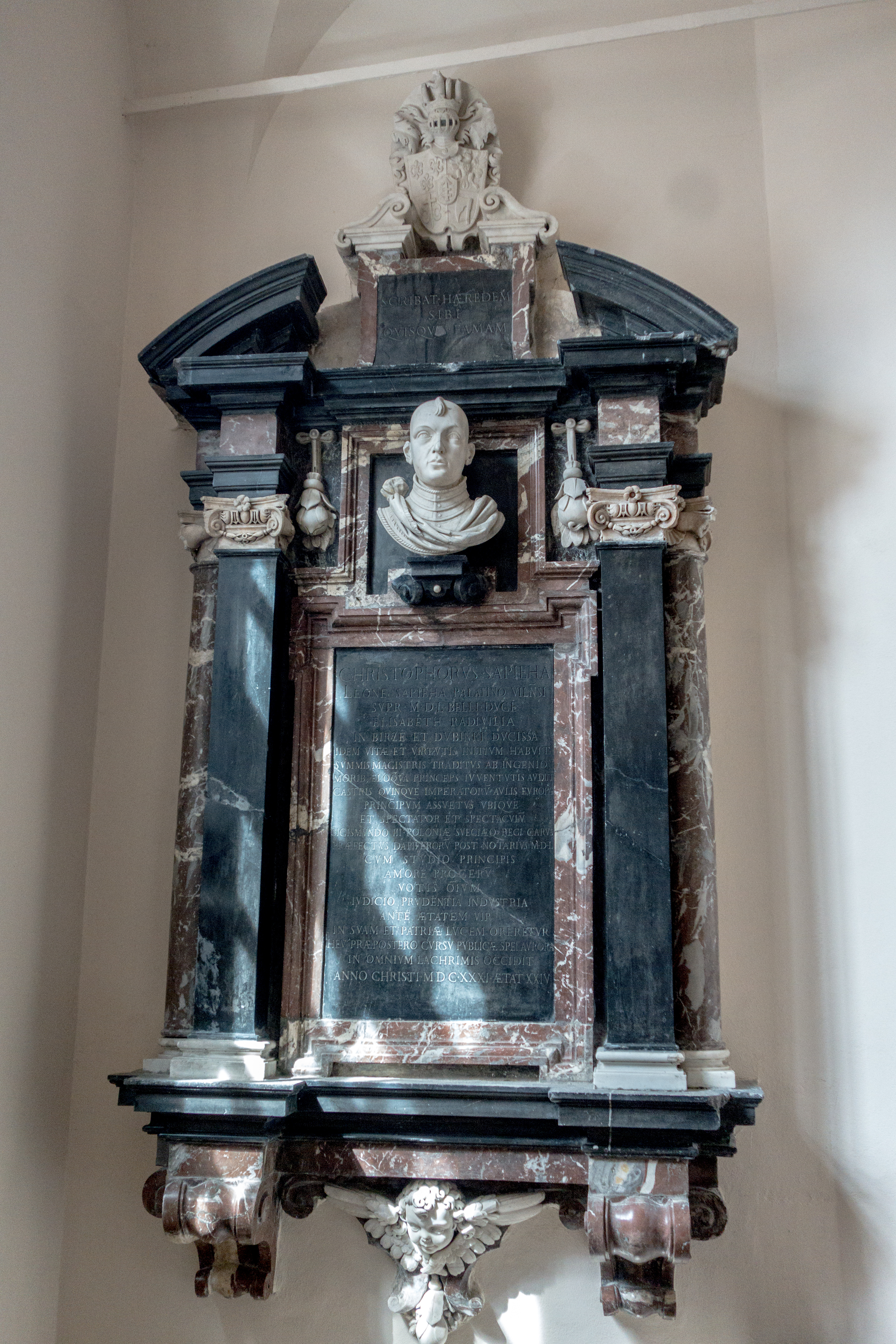 The Tombstone for Christopher Sapiega, Church Heritage Museum in Vilnius